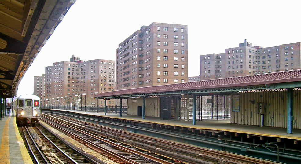 Photographed by Daniel Case 2006-12-12